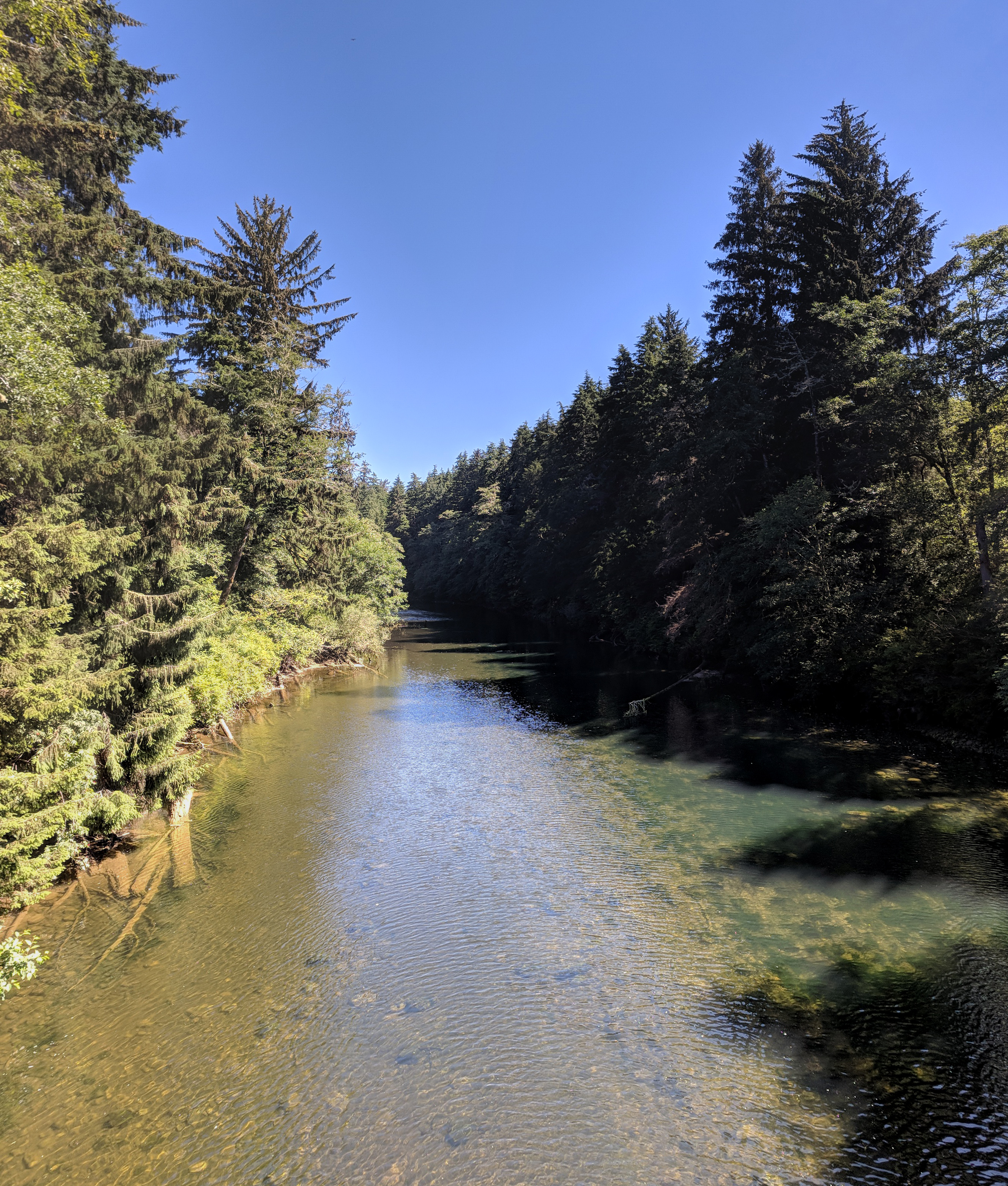 The Dickey River in Washington (state), looking upriver from the bridge at Mora Road, near the confluence with the Quillayute River, within the coastal part of the Olympic National Park